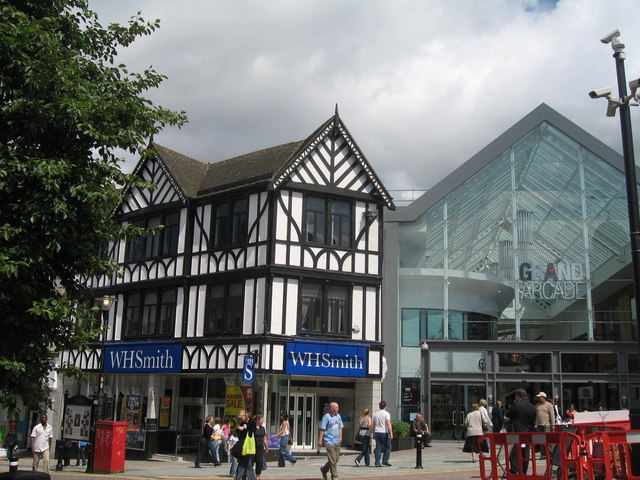 Market Place and the Grand Arcade.